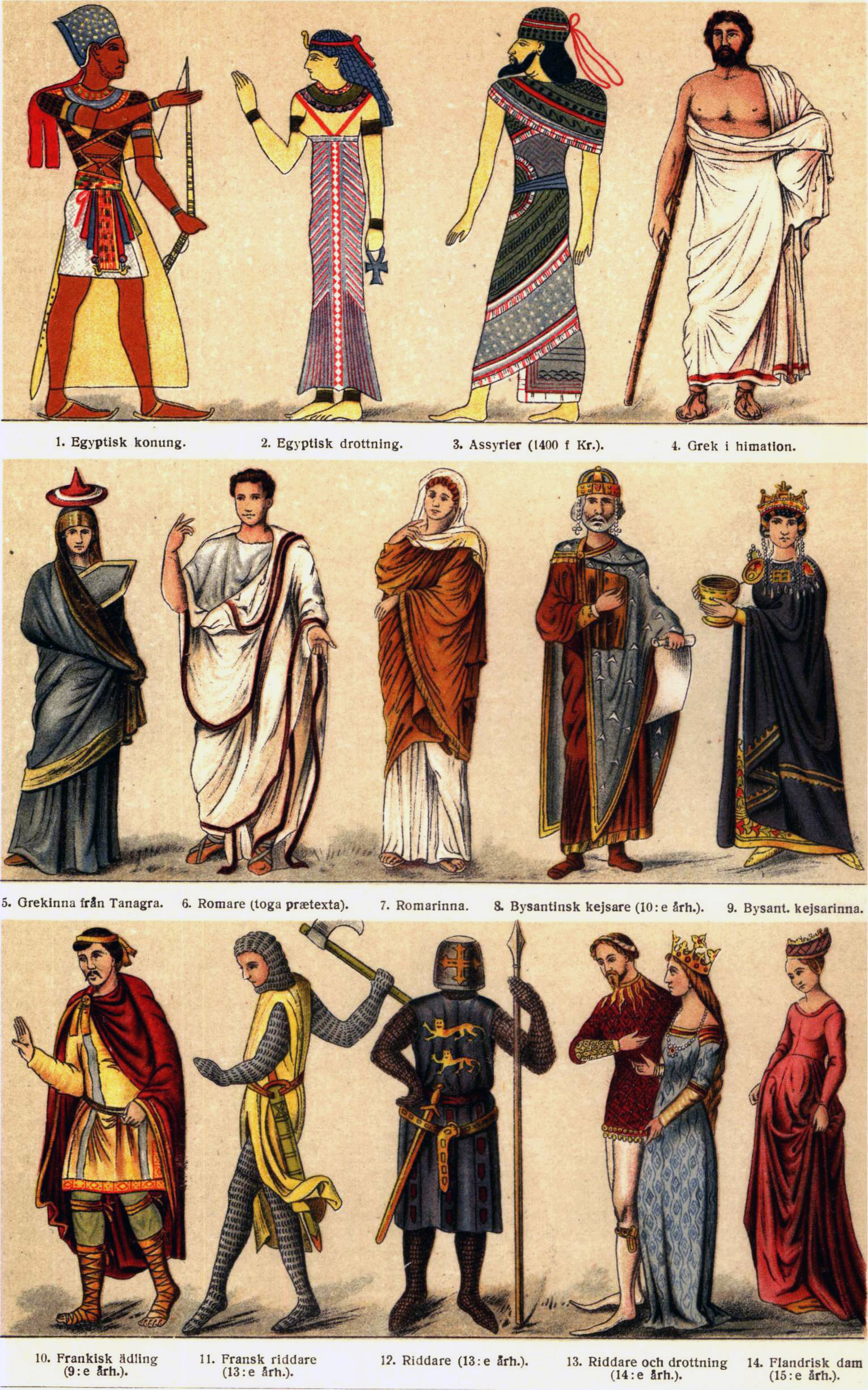 Clothing: Ancient times and the middle ages